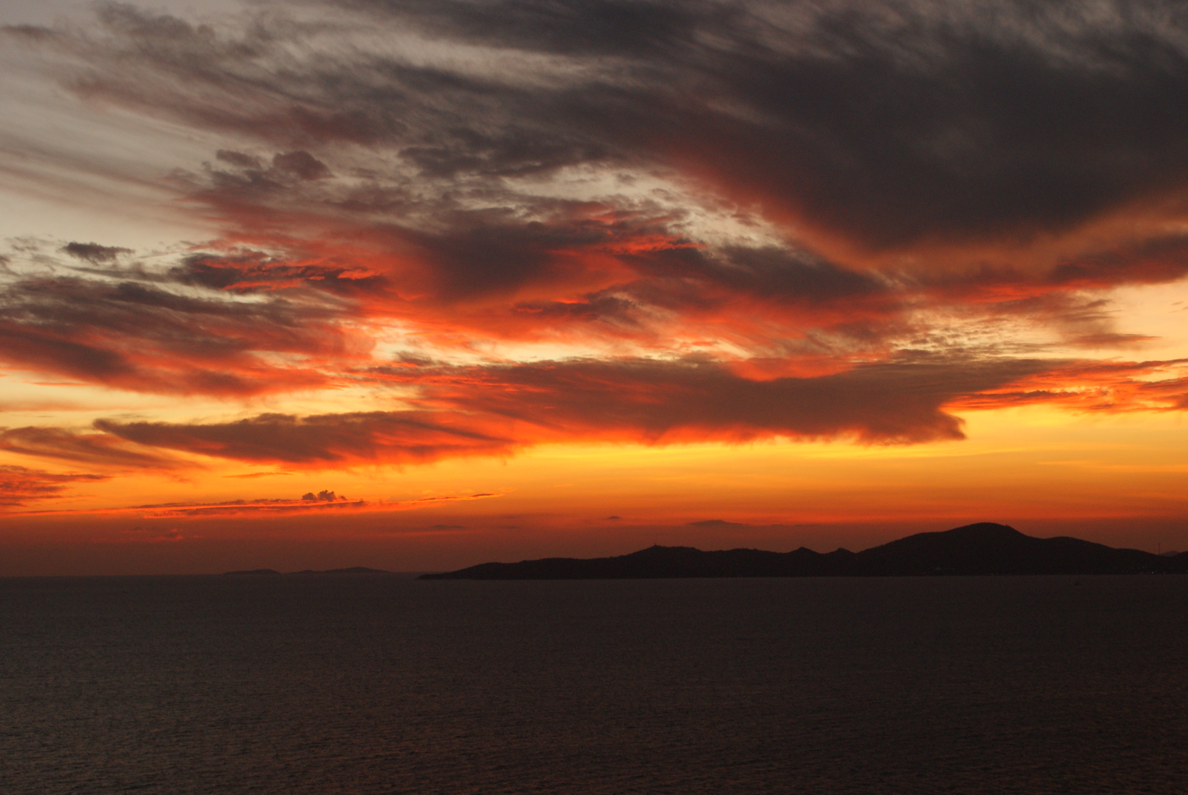 Sea view and Ko Lan island from the 20-flor of Adriatic Palace hotel